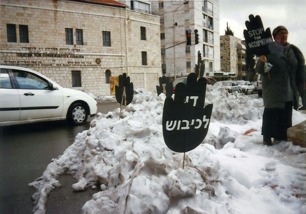 Stop the Occupation. Square of France (Paris Square) Friday vigil (utilizing the dying snow to stick the "Enough" hands).